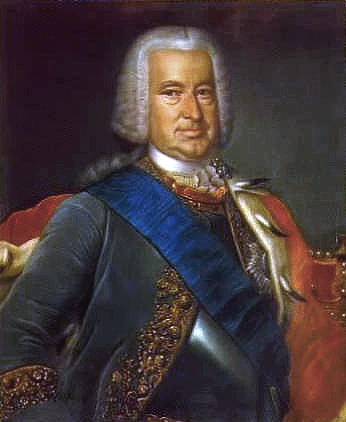 Ernst Johann von Biron Ritratto di Ernst Johann von Biron, Duca di Curlandia Портрет работы Л.Шорера 1760-е годы. Рундальский дворец. Латвия. Единственный портрет герцога после возвращения из ссылки.